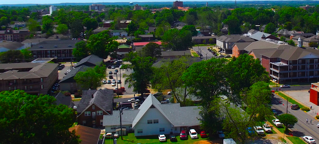 A partial view of western Tuscaloosa with downtown in the distance.